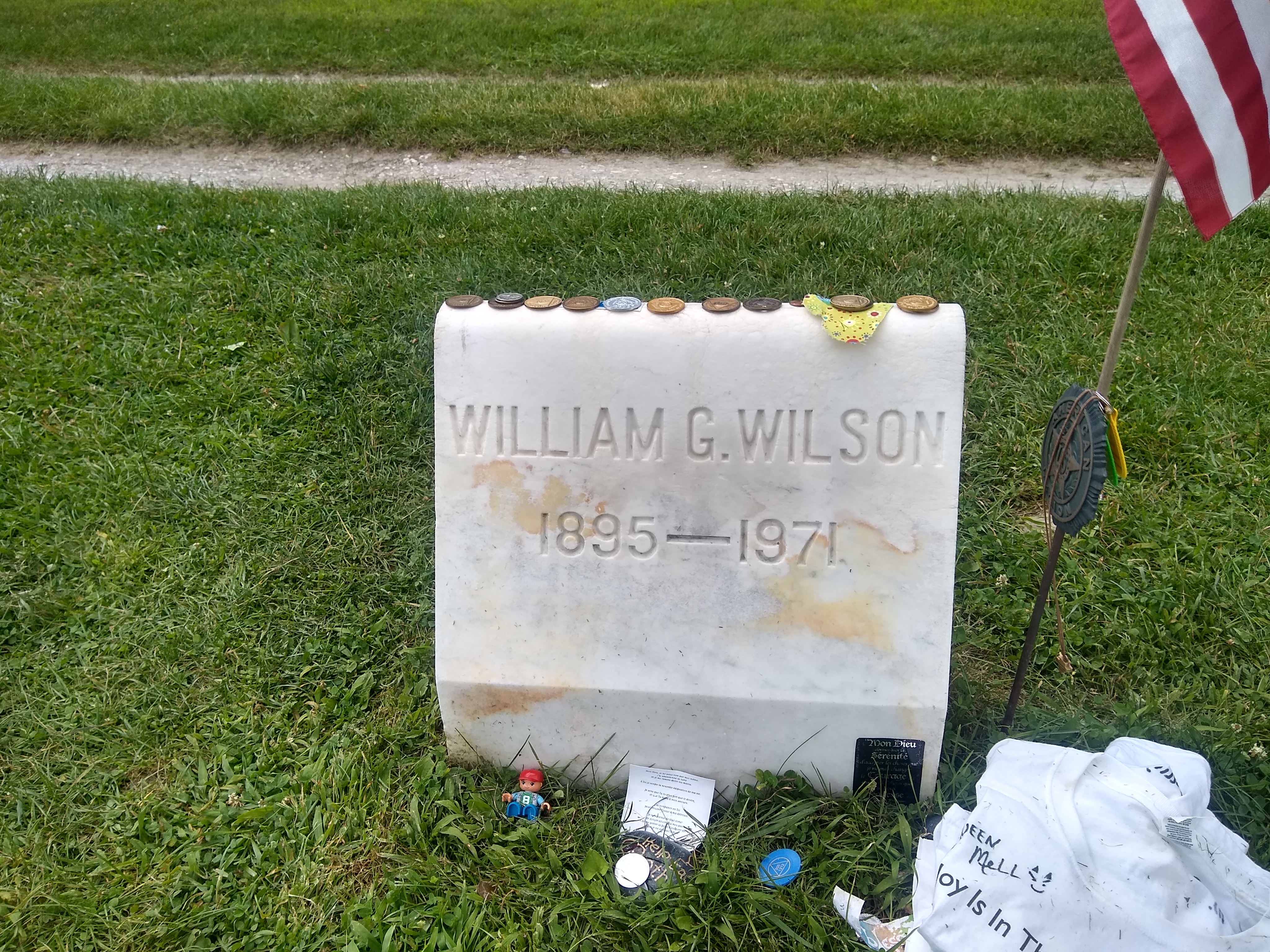 William Griffith Wilson's gravestone in East Dorset Cemetery.